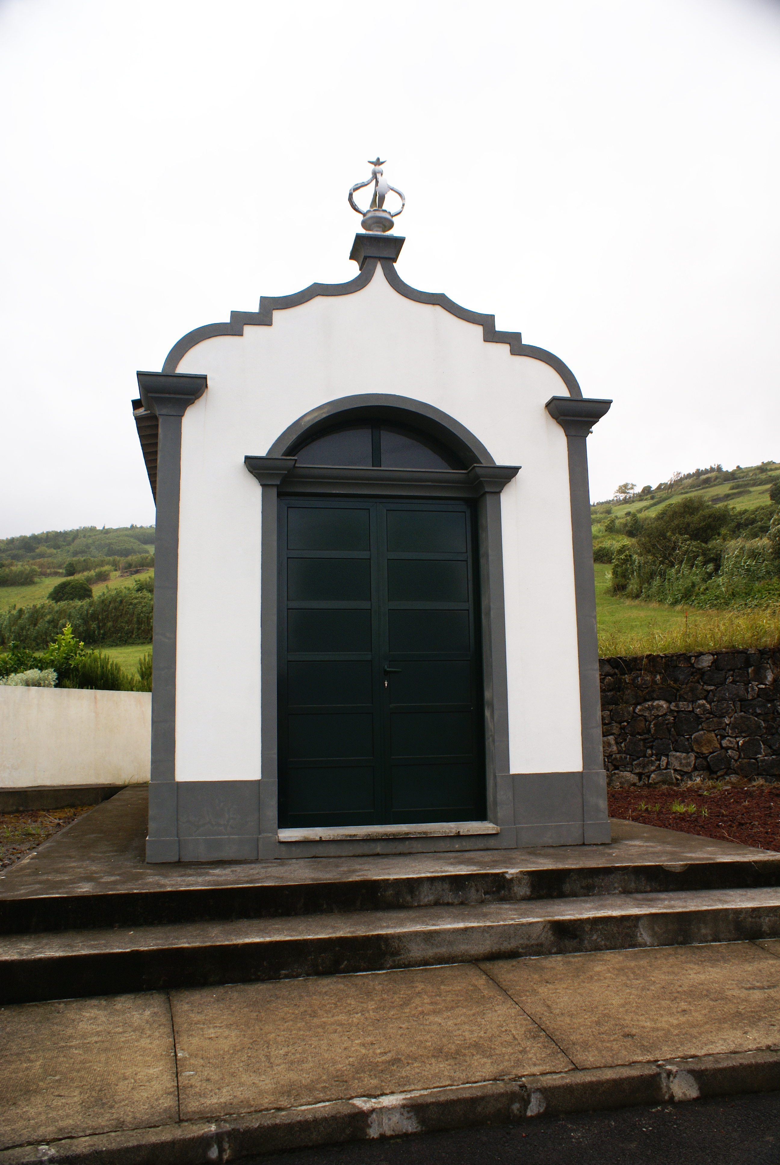 Império do Espírito Santo Infantil do Farrobo, concelho da Horta, ilha do Faial, Açores, Portugal